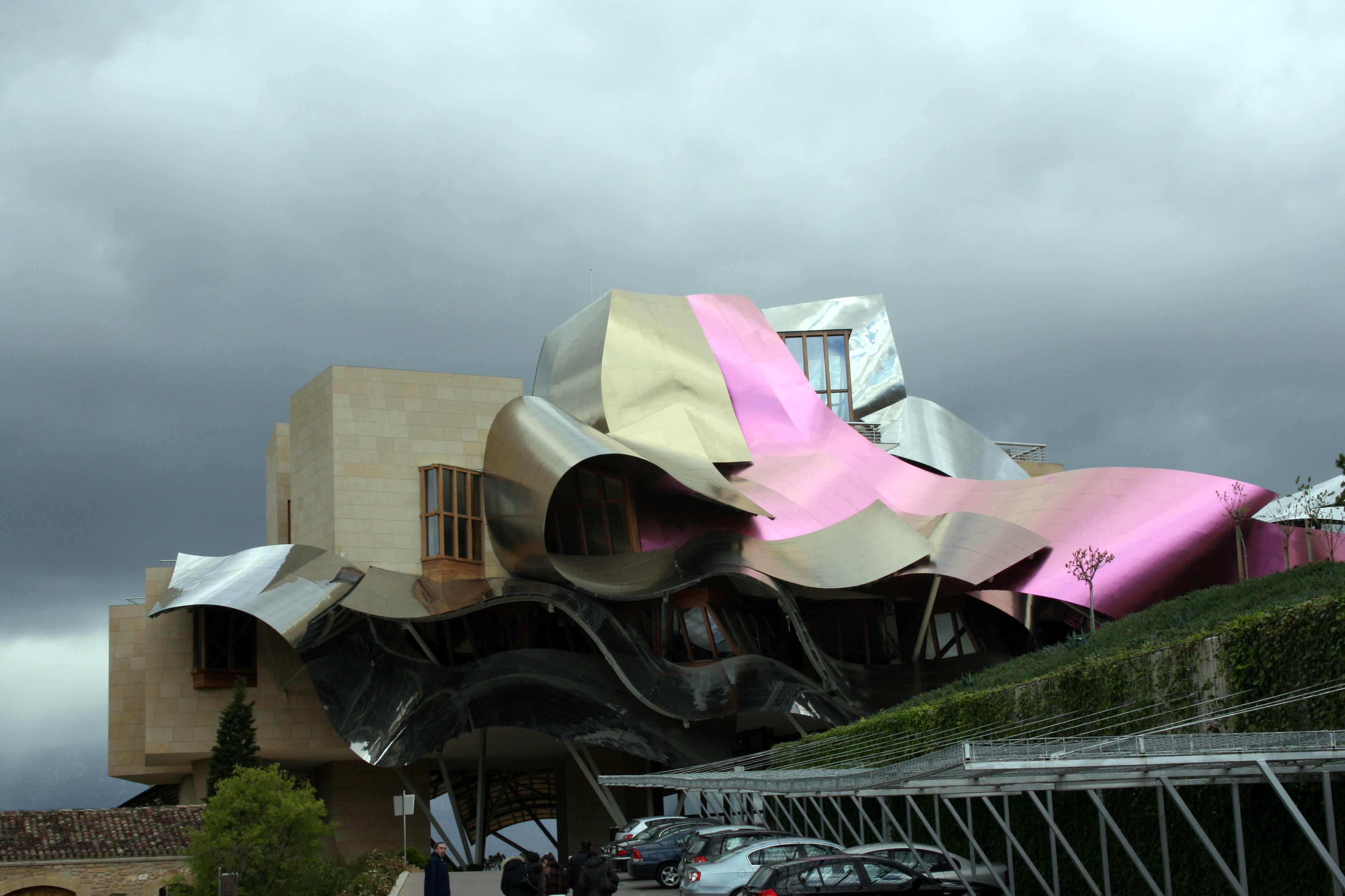 Marqués de Riscal Winery by Frank Ghery, Rioja, Spain